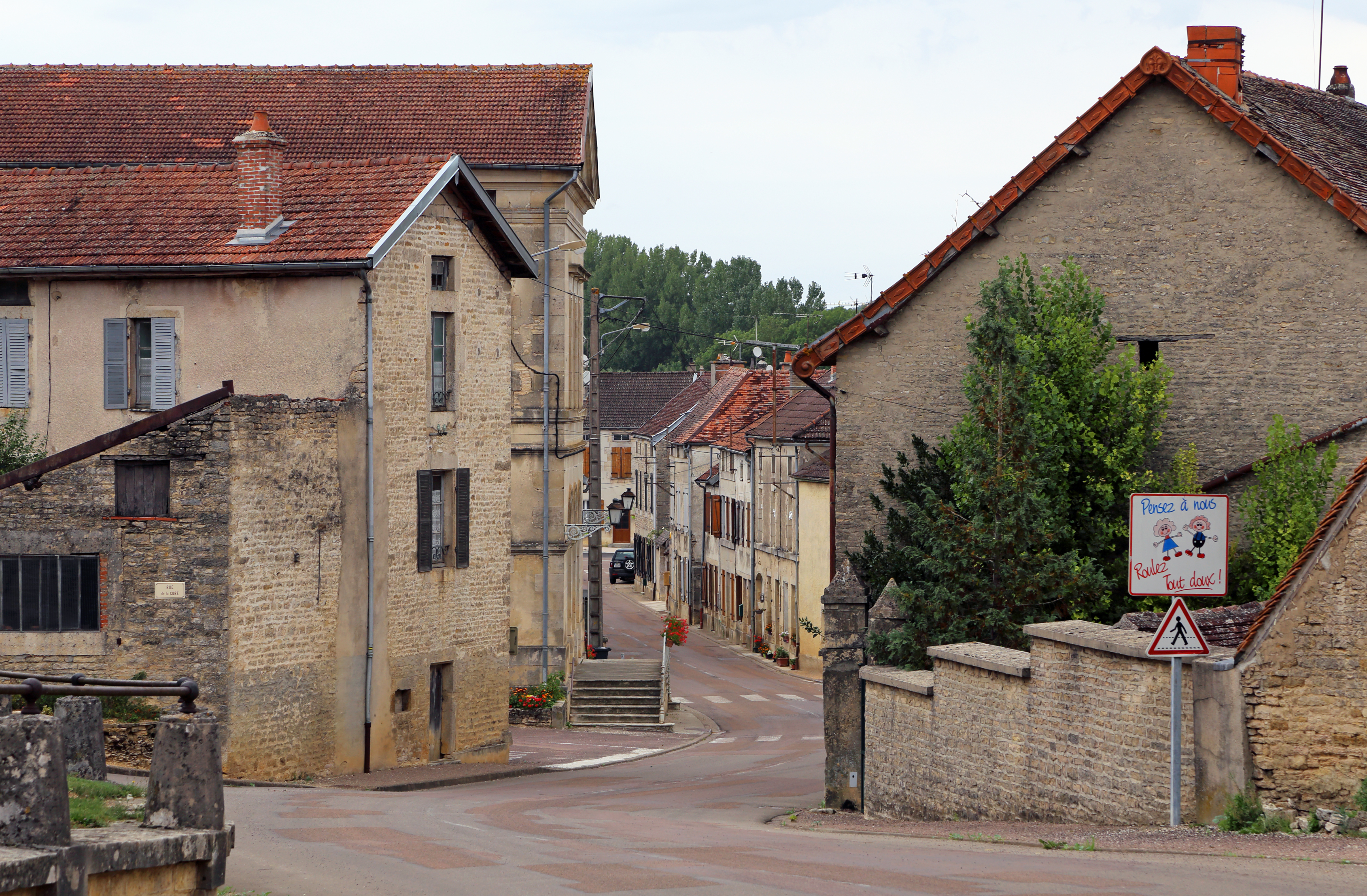 Belan-sur-Ource (Côte-d'Or department, France): the rue Tanneguy d'Harcourt (route départementale 13)